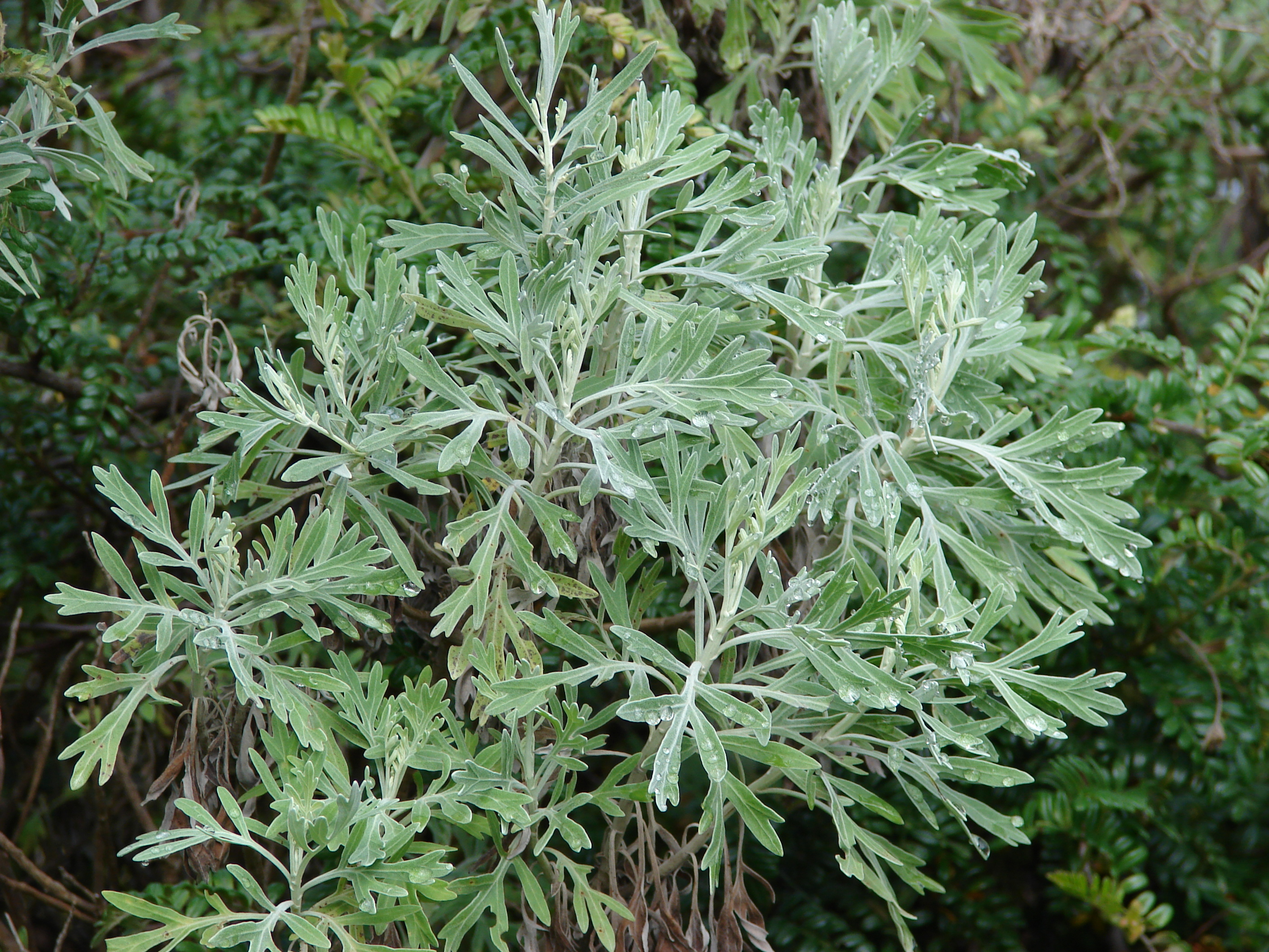 Artemisia australis (leaves). Location: Maui, Makawao